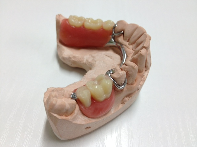 Partial denture